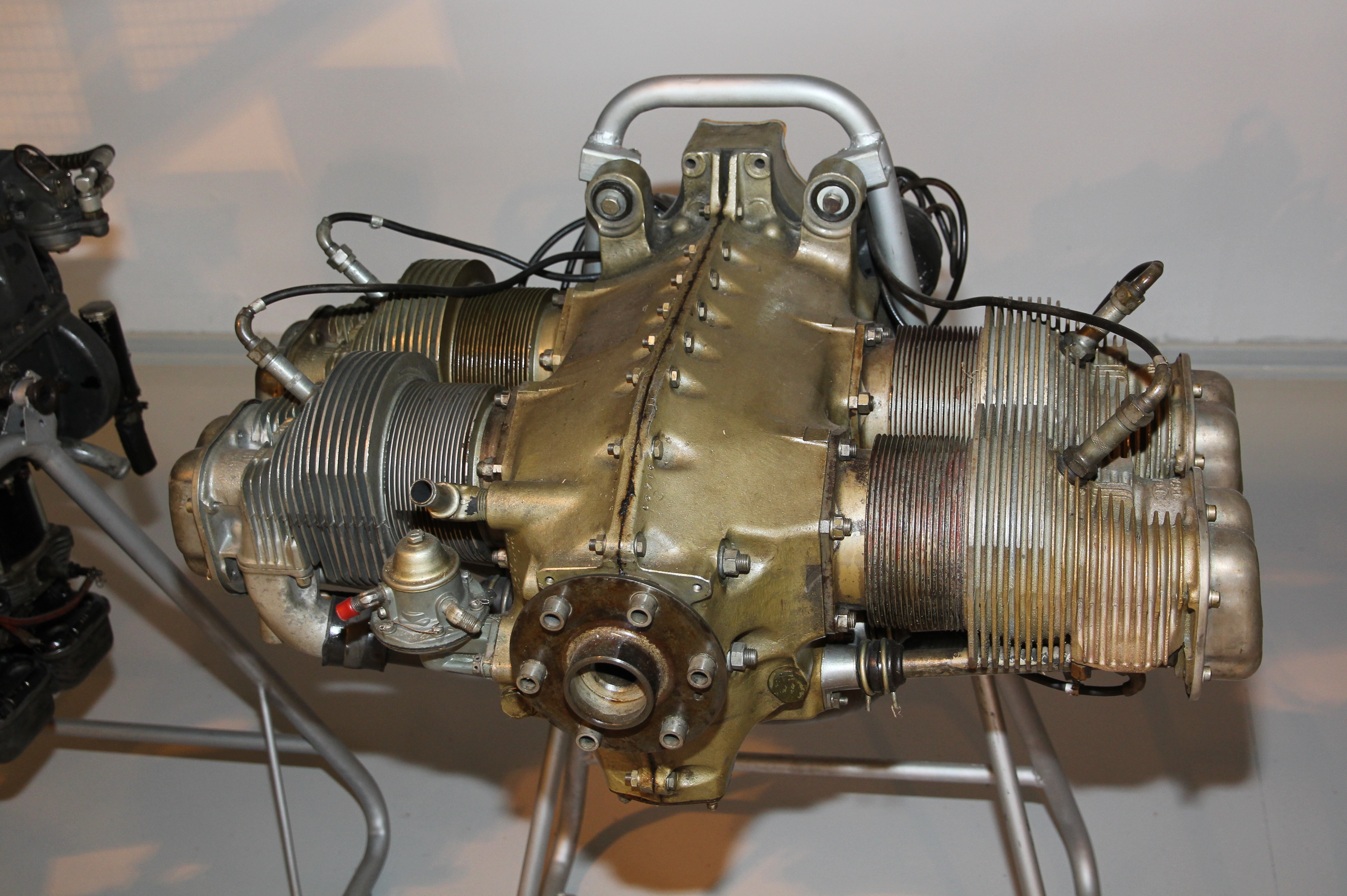 Continental O-200 engine in the Aviation Museum of Central Finland.